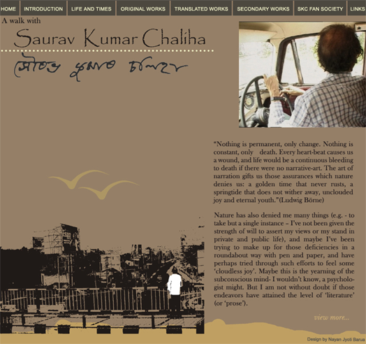 Saurav Kumar Chaliha